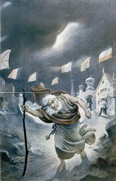 The Wandering Jew, rejected from buildings with flags of different countries.